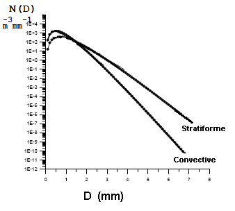 Means real drop size distributions in convective and stratiforme rain cases which fit the Marshall and Palmer relation in the linear part.